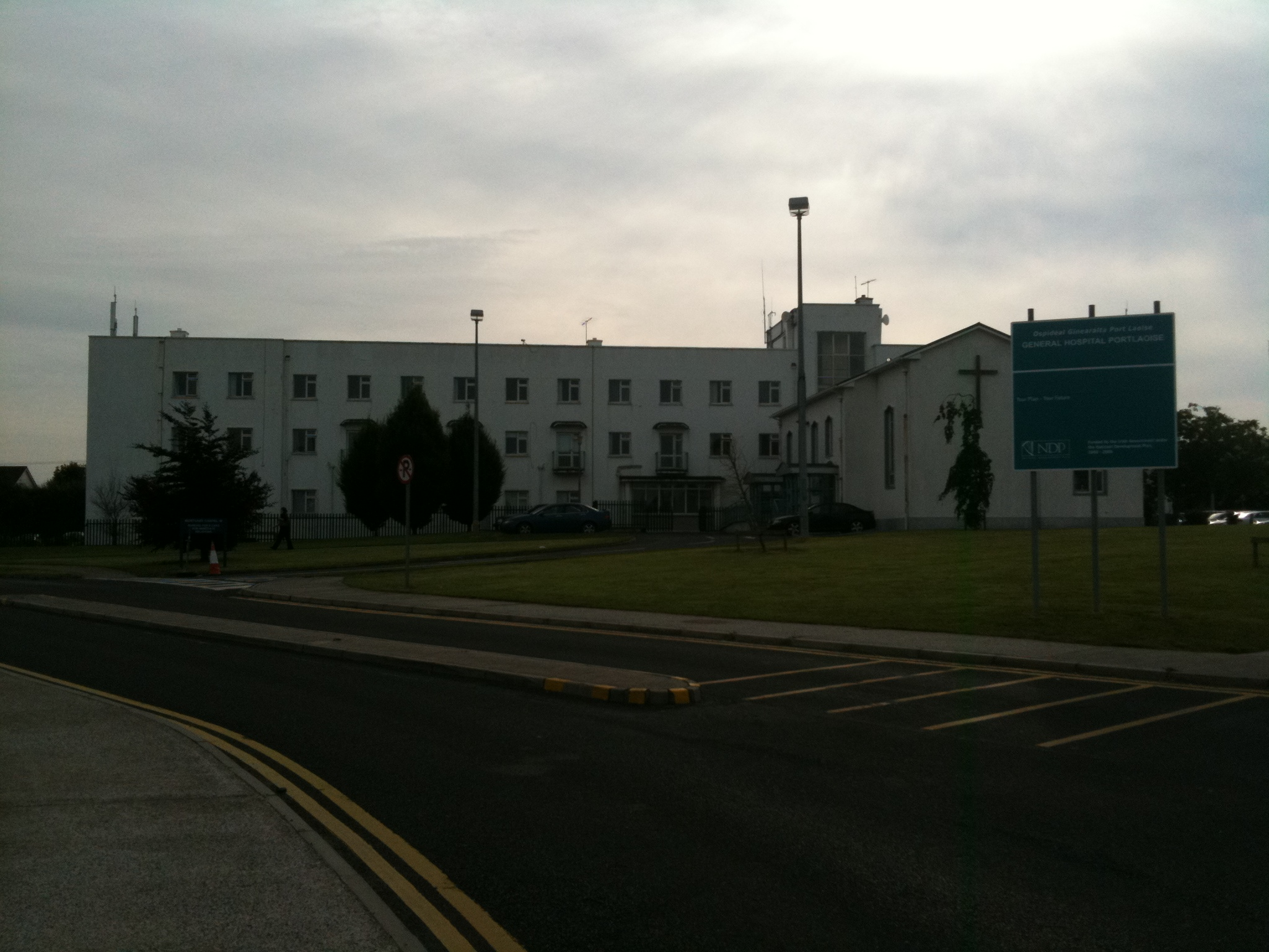 View of Midlands Regional Hospital, Portlaoise, County Laois, Ireland.